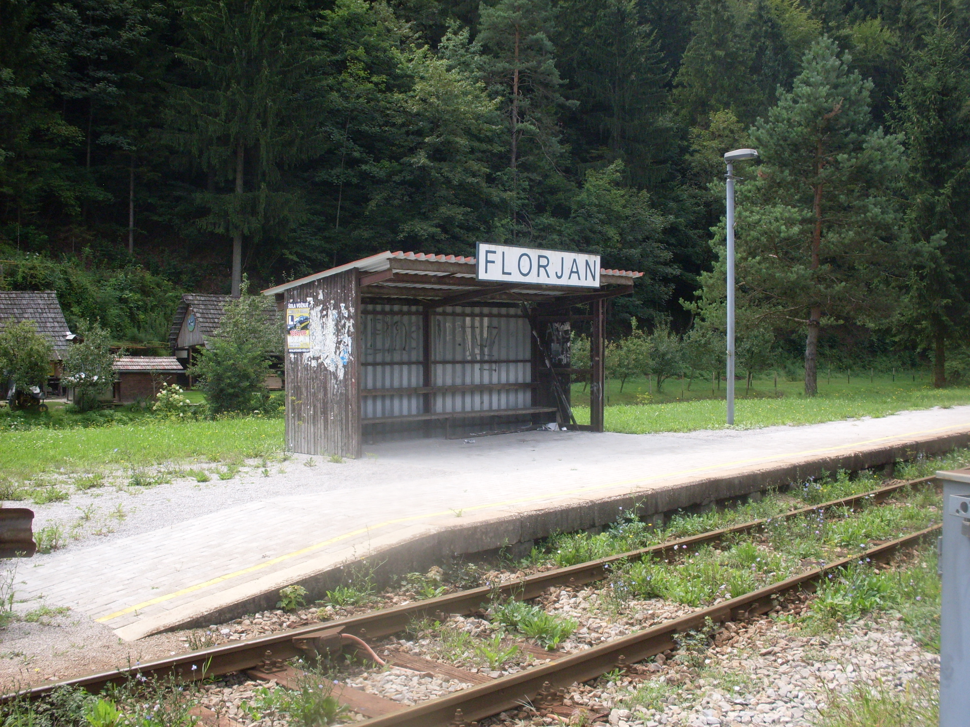 Railway halt Florjan, located in Skorno pri Šoštanju